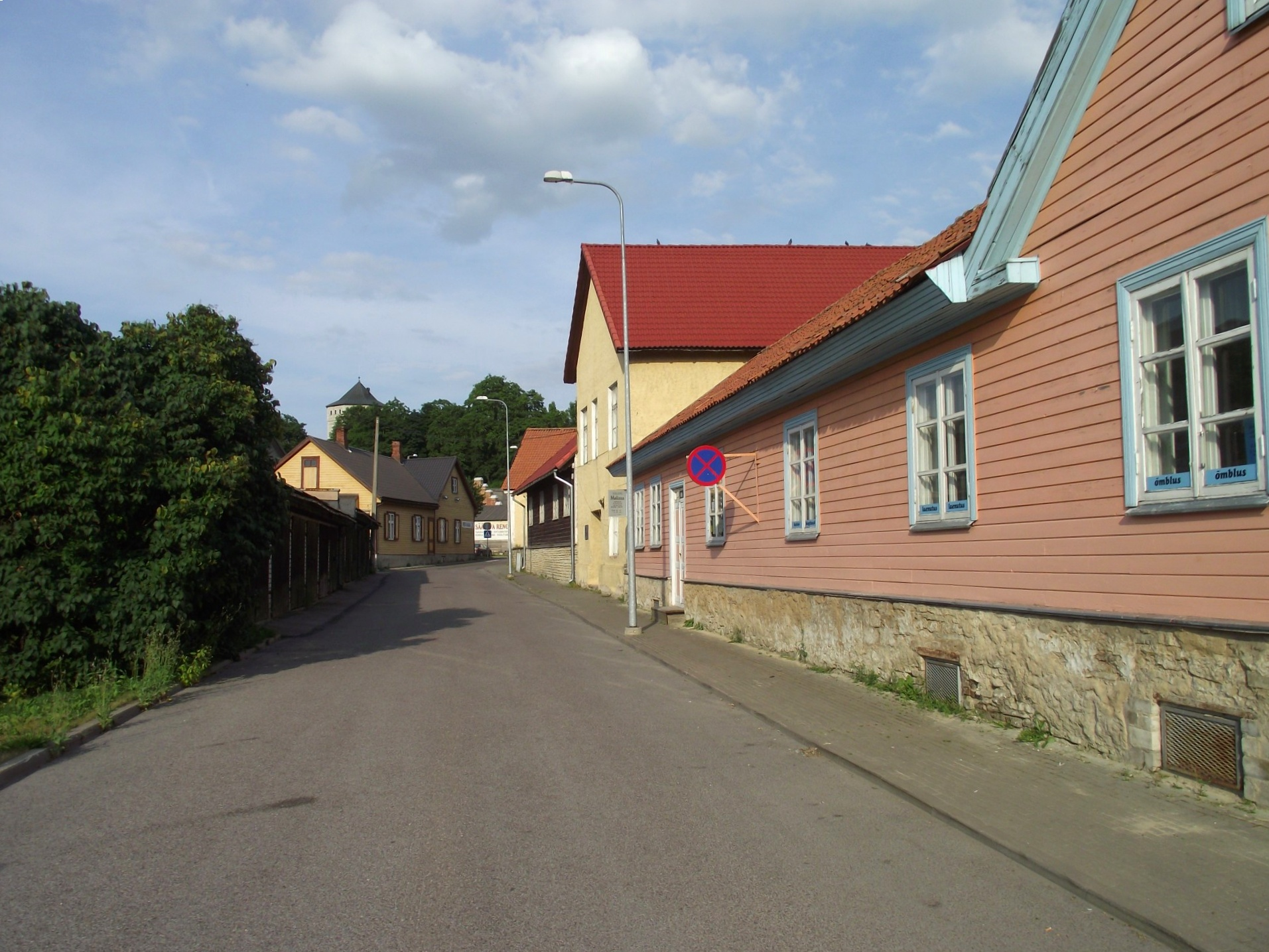 Kitsas (Narrow) street in Paide